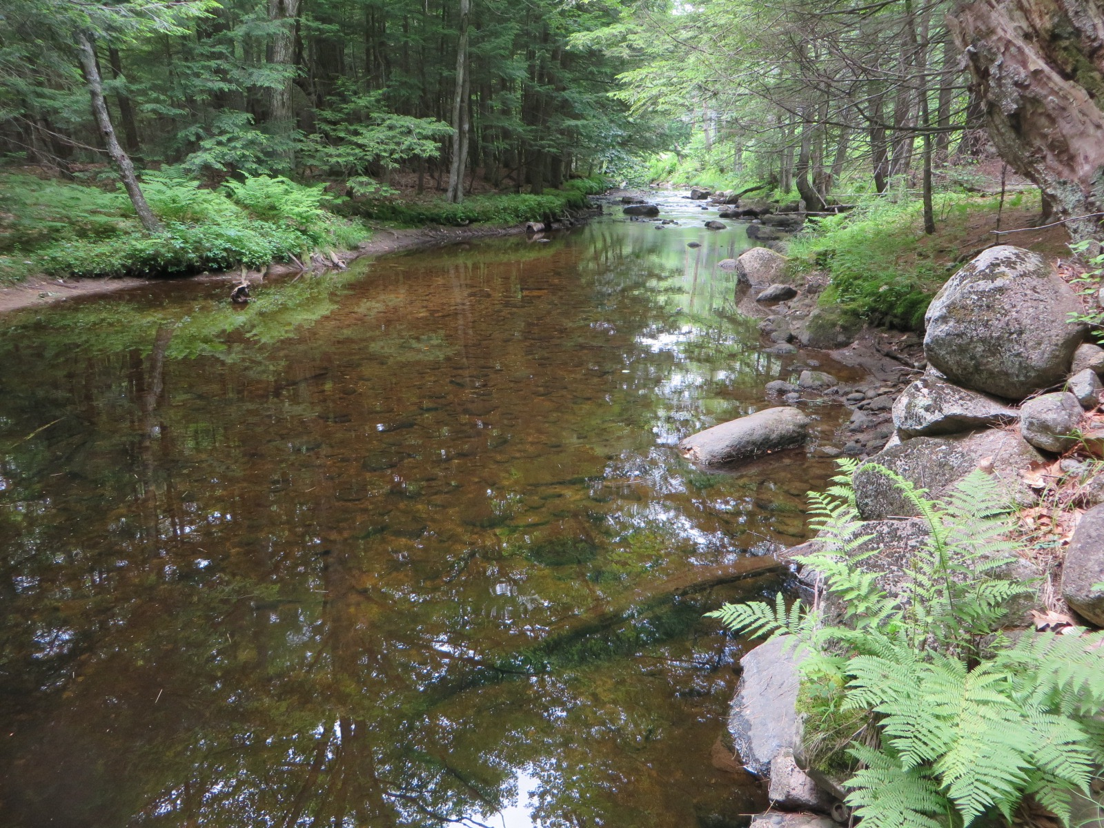 The West Branch Warner River in Bradford, June 2015.